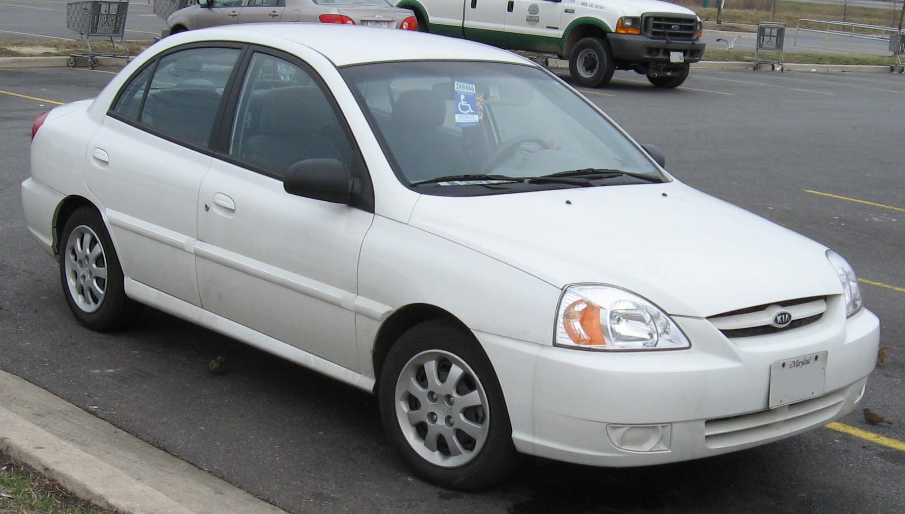 2003-2005 Kia Rio photographed in USA.